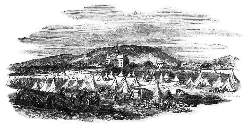 Encampment of Sufferers by the Great Fire at Montreal